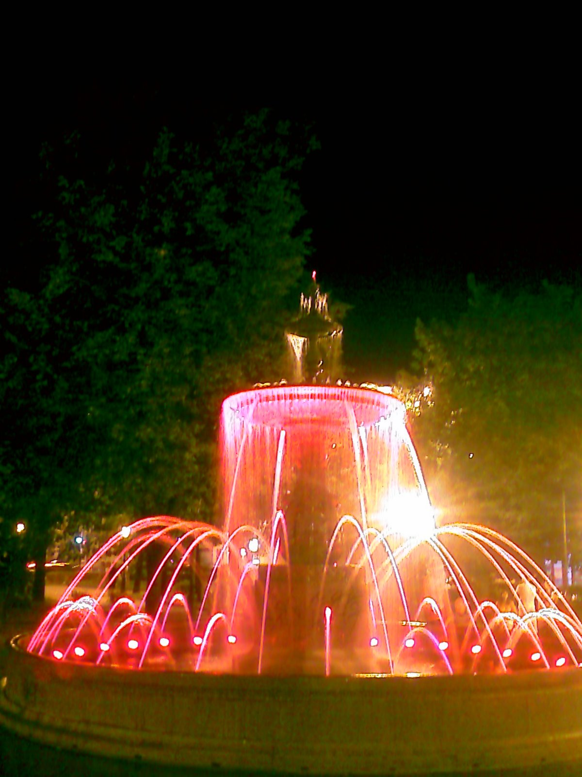 Minin and Pozharsky quare, Nyzhny Novgorod